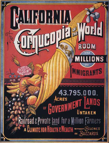 California: The Cornucopia of the World. Room for millions of Immigrants. Propaganda Poster created to get immigrants to move to California.